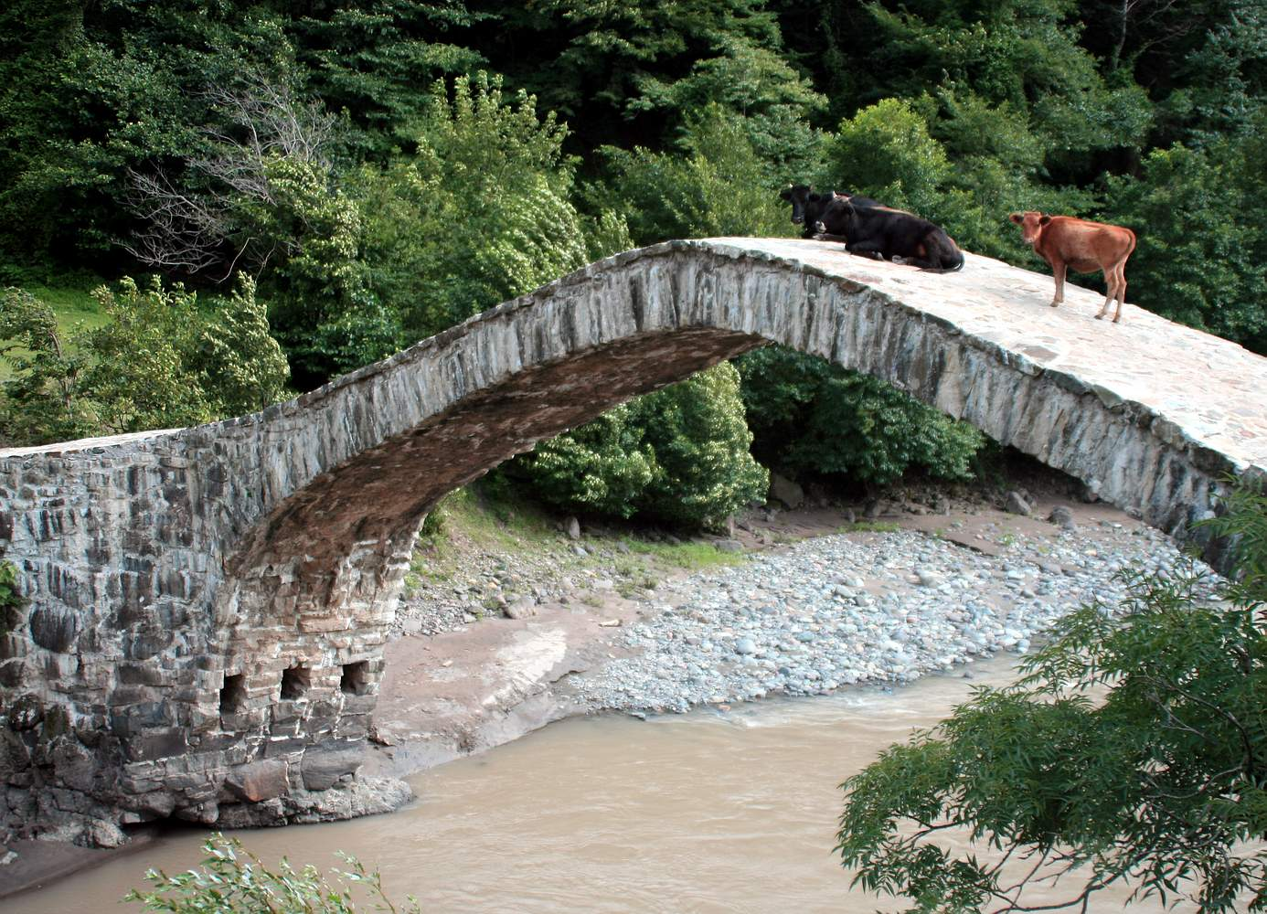 Medieval bridge in Dandalo, Adjara, Georgia